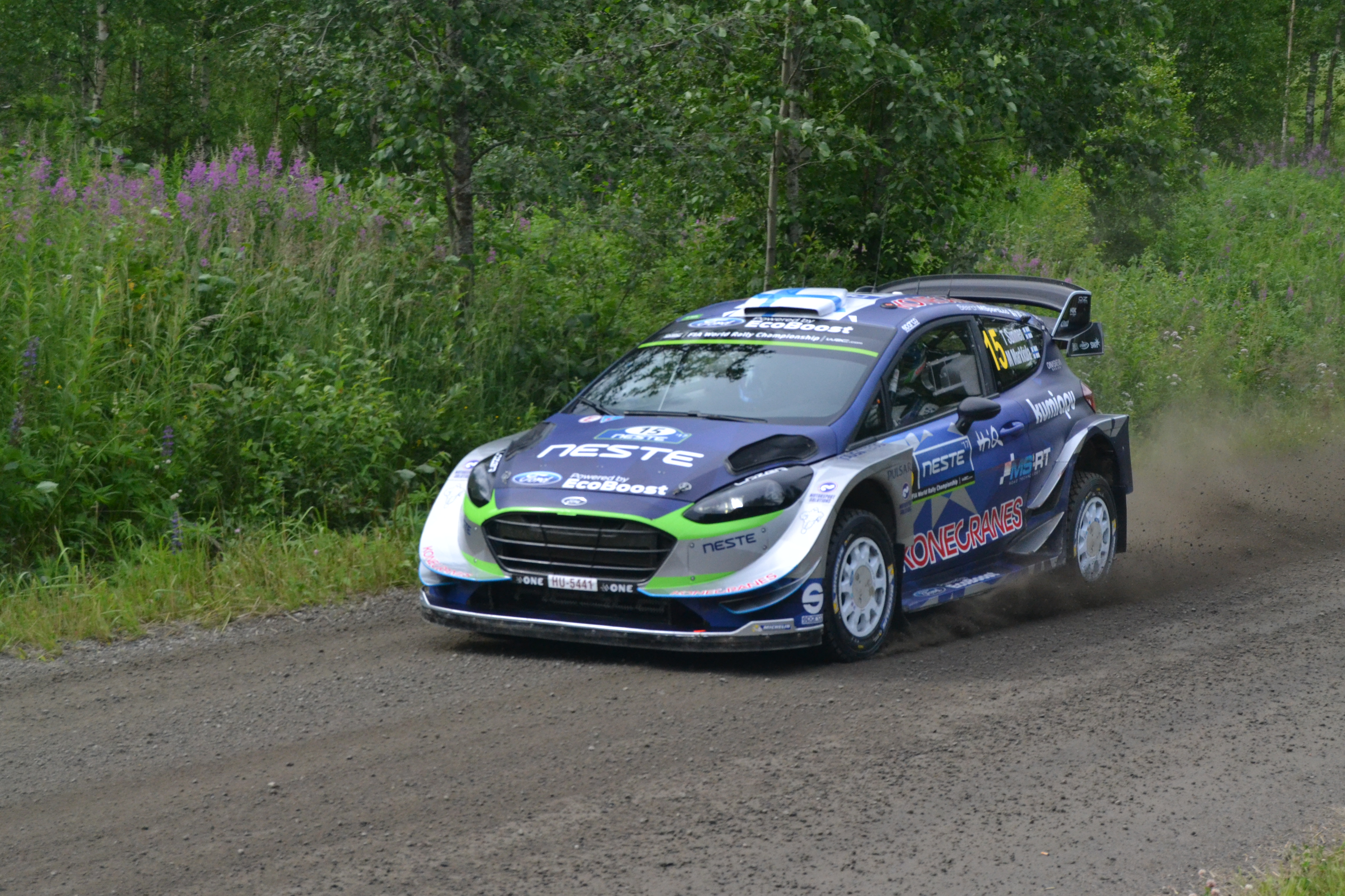 Teemu Suninen at second Saalahti stage at Rally Finland 2017